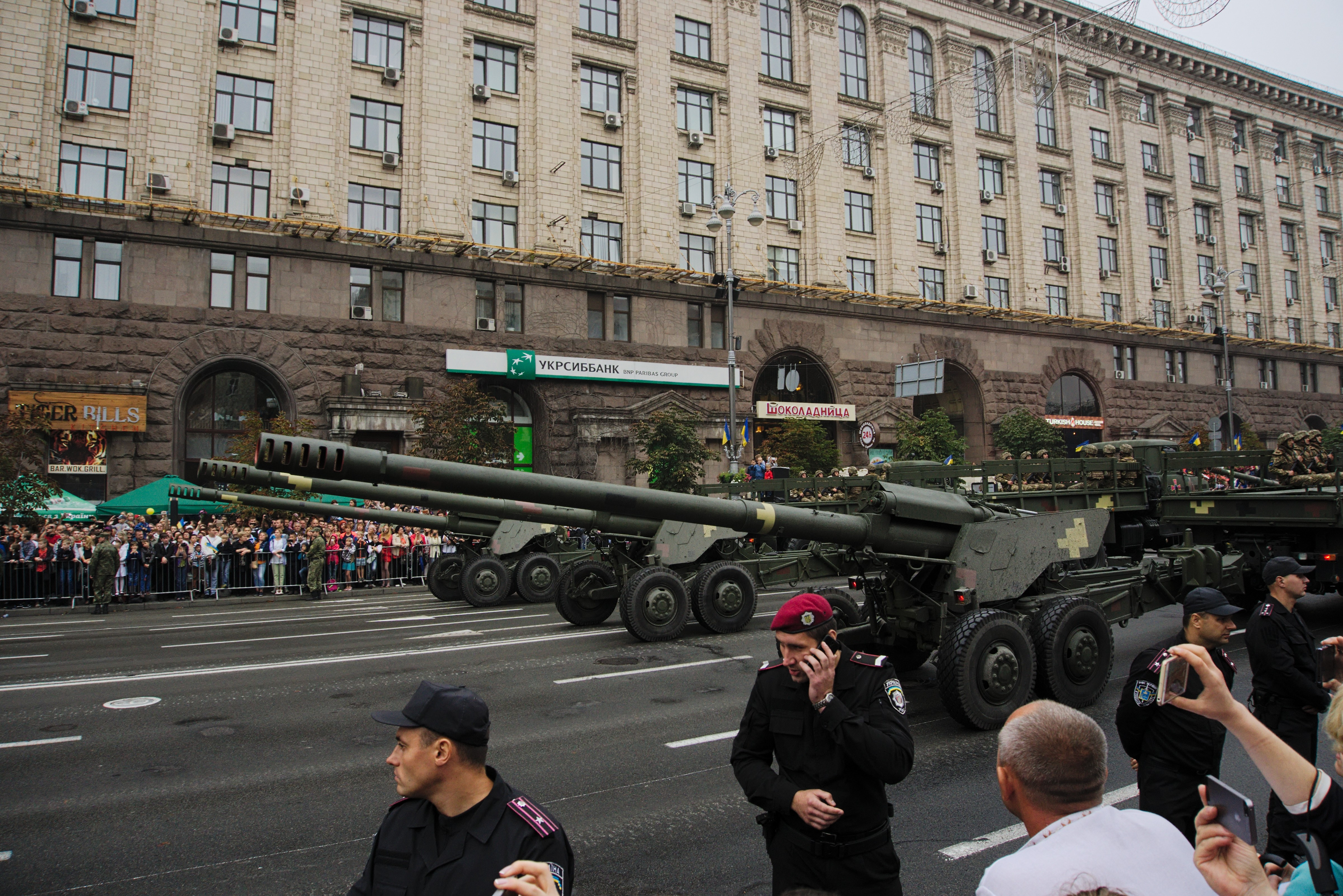 2A36 «Giatsint-B» 152 mm gun